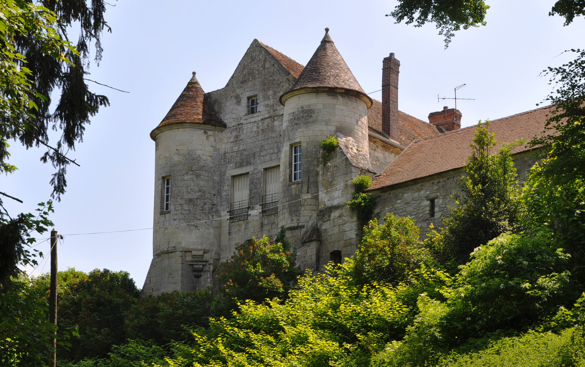 Château Saint-Mard, Vez